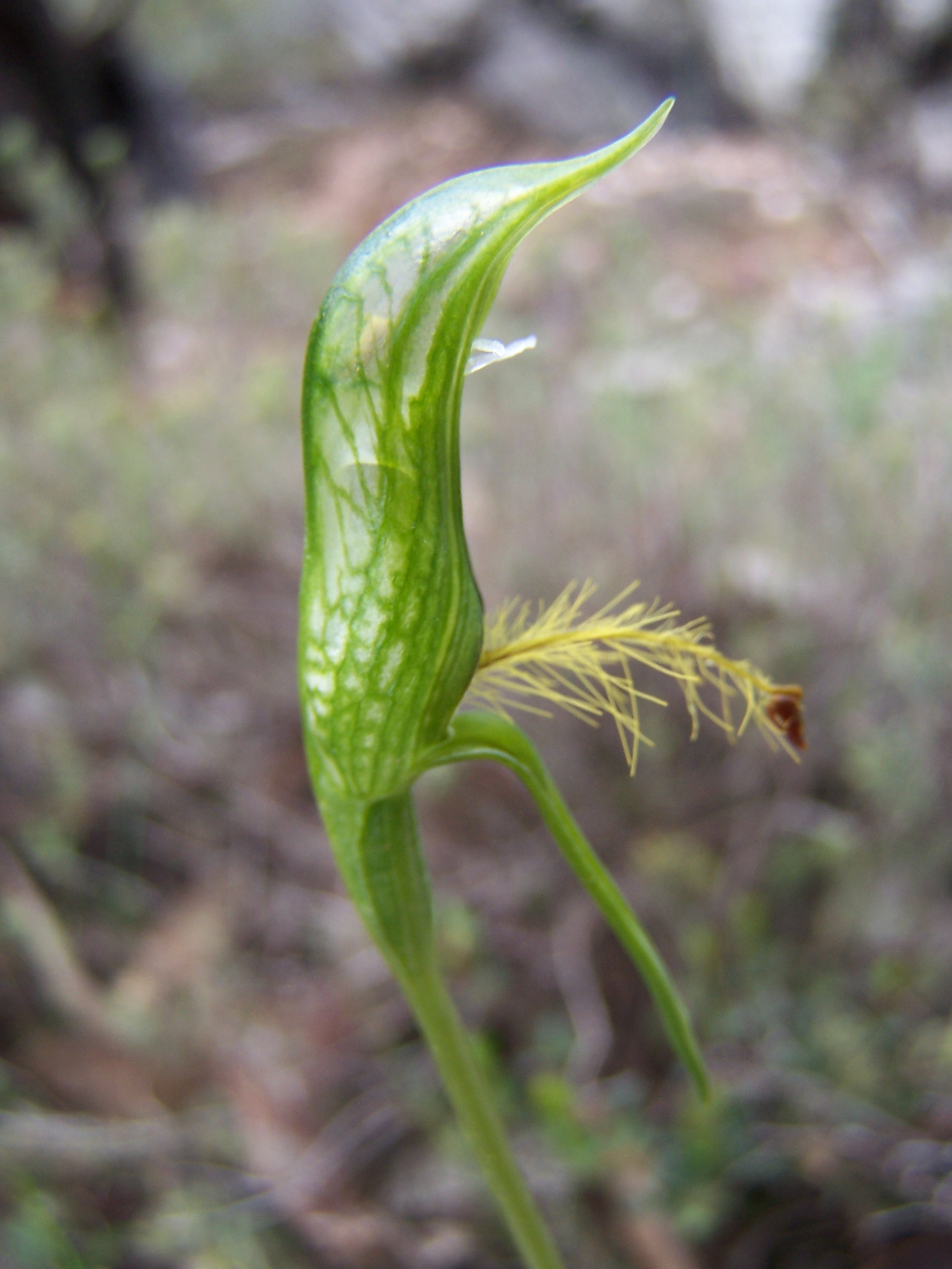 Australian orchid, the Plumed Greenhood (Pterostylis plumosa)